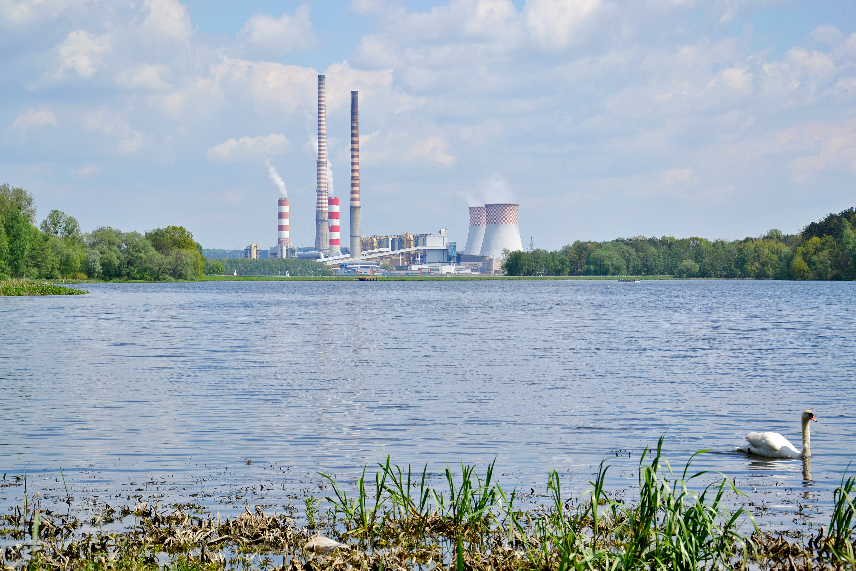 Rybnik Power Station, Upper Silesia. View from Gzel Reservoir